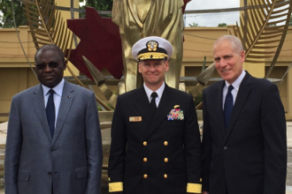 171114-N-N0901-003 BRAZZAVILLE, Republic of Congo (Nov. 14, 2017) Rear Adm. Shawn Duane, vice commander, U.S. 6th Fleet, middle, poses for a photo with Republic of Congo Minister of Defense Charles Richard Mondjo Guy Okoi, left, and US Ambassador Haskell during a tour of the Ministry of Defense in Brazzaville, Republic of Congo, Nov. 16, 2017. U.S. 6th Fleet, headquartered in Naples, Italy, conducts the full spectrum of joint and naval operations, often in concert with allied and interagency partners, in order to advance U.S. national interests and security and stability in Europe and Africa. (U.S. Navy photo by Lt. Ryan Law/Released)